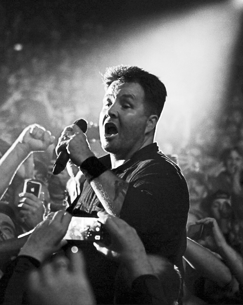 Live in concert